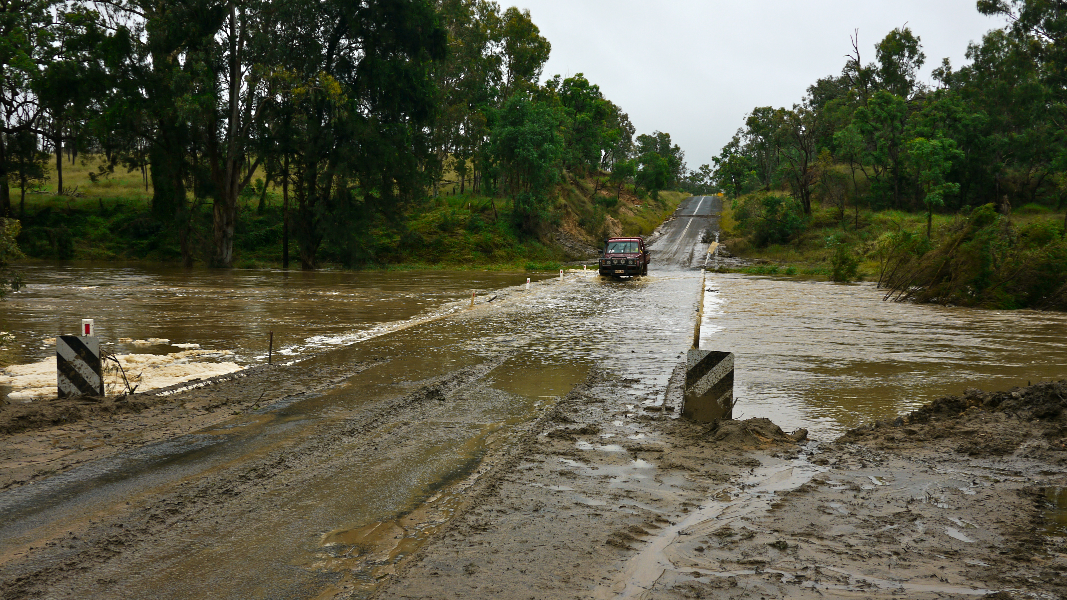 A 4WD crosses the rising Boyne River east of Durong. Taken after I had crossed bridge.